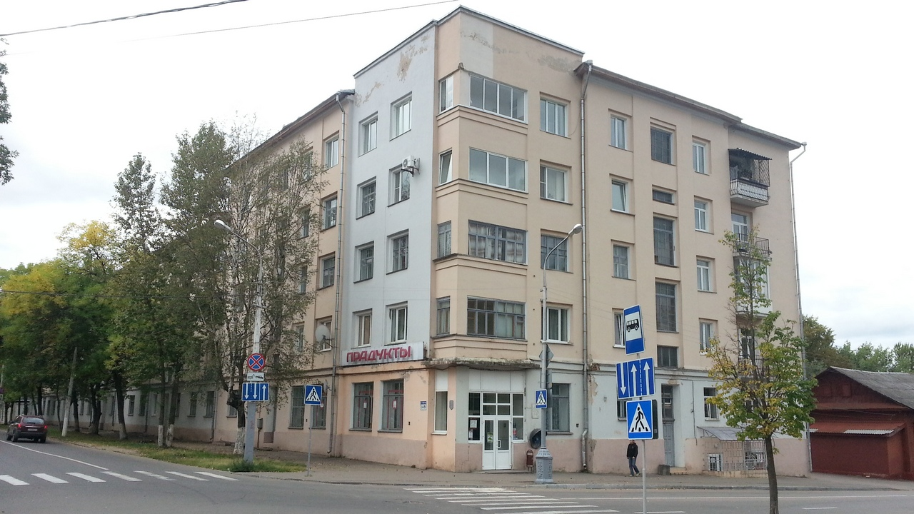 Беларуская (тарашкевіца): Будынак (Дом спэцыялістаў) This is a photo of Belarusian heritage monument. Reference number: 213Г000021 ( WLM)